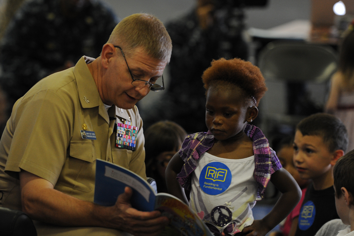 Capt. Brian E. Luther, commanding officer of USS George H.W. Bush (CVN 77), reads to sailors' children during a celebration of reading event in the ship's hangar bay. The event was sponsored by Reading is Fundamental, the largest childrenÕs literary nonprofit organization in the United States, and United Through Reading, a program dedicated to giving deployed service members the opportunity to read to their children. (U.S. Navy photo by Mass Communication Specialist Seaman K. Ashley Lawrence)